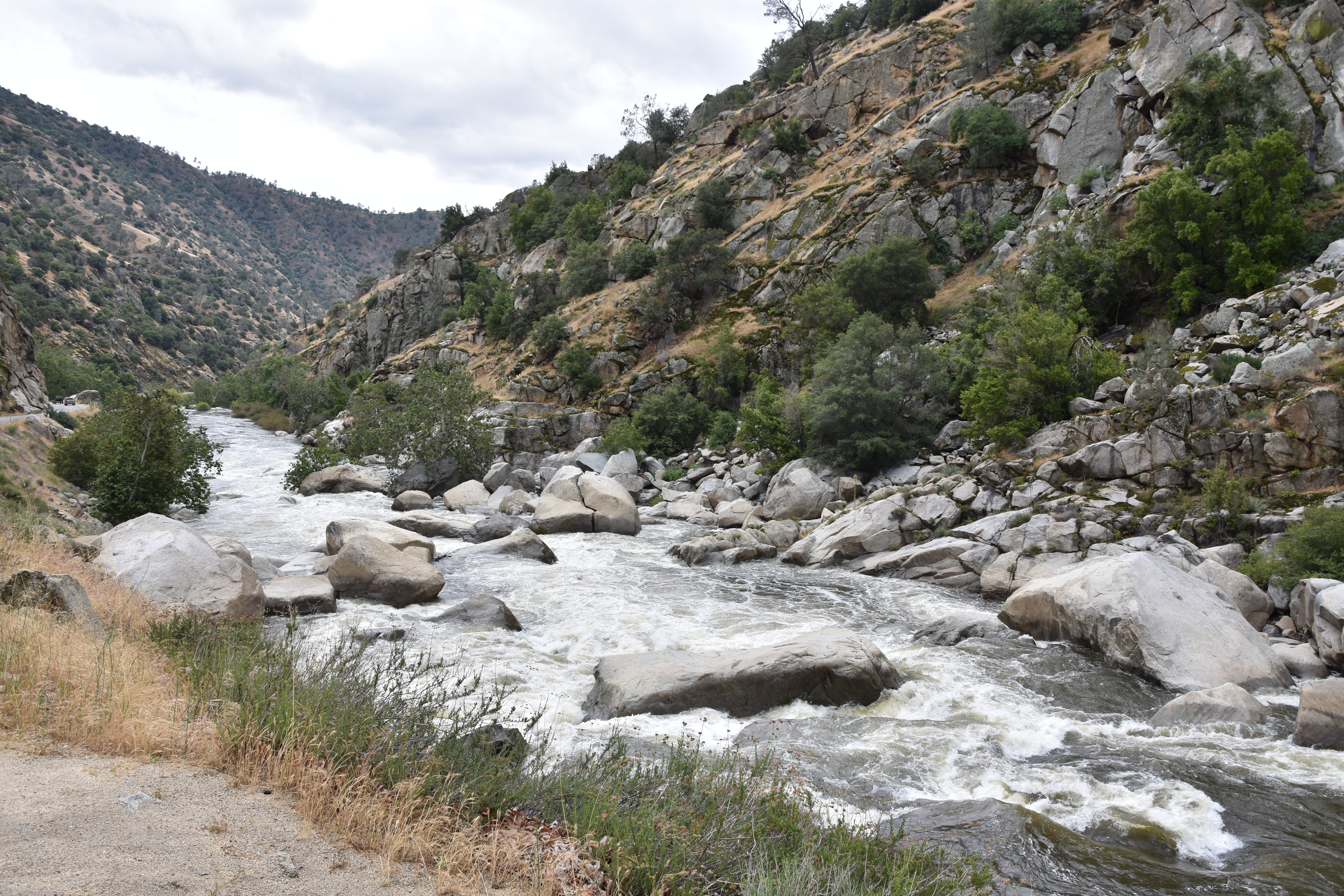 Kern River near State Route 178, May 2019